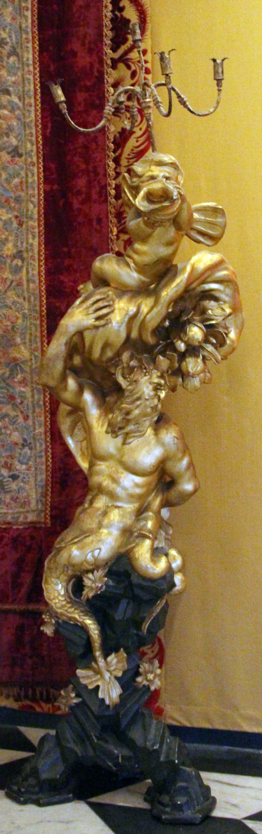 Interior of the Villa del Principe (Genoa) - Gallery